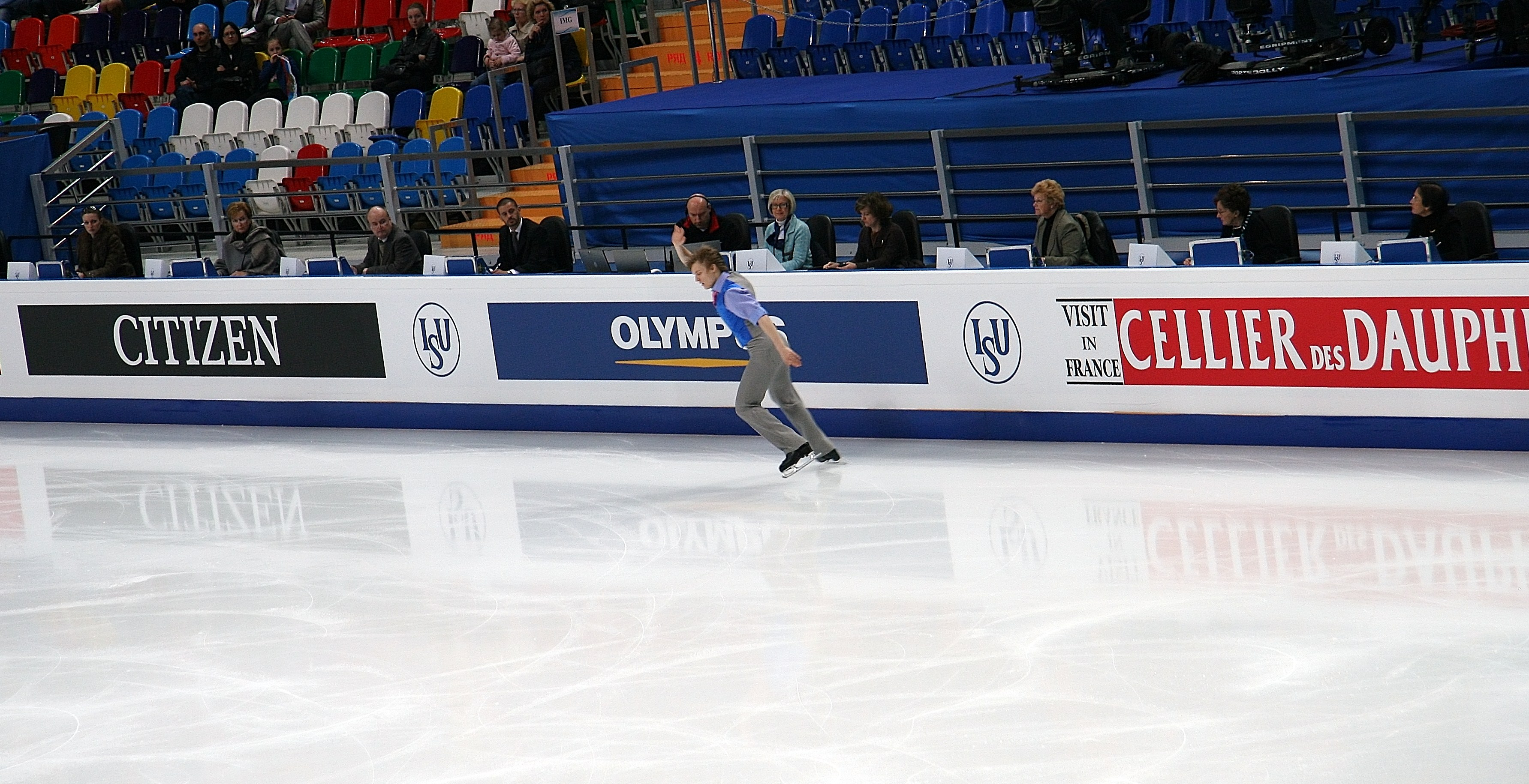 Judges work in the short program Tomas Verner at the 2011 World Figure Skating Championships